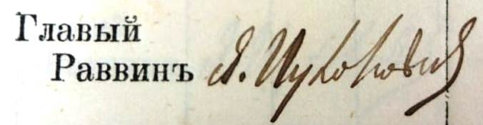 Photograph